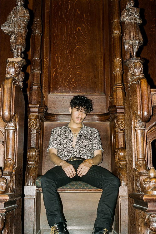 A CHAL Press Photo from Epic Records 2018